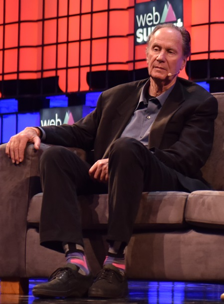 David Bonderman